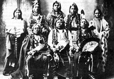 Tonkawas Standing L-R, Winnie Richards, John Rush Buffalo, William Stevens, John Allen, and Mary Richards. Seated L-R John Williams, Grant Richards, and Sherman Miles